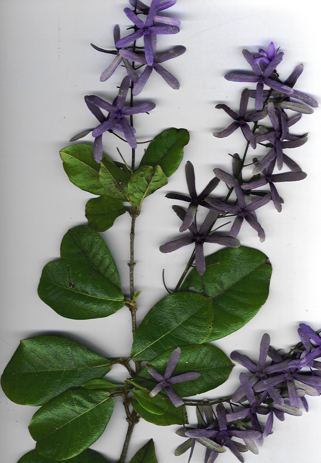 Petraea volubilis (plant). Location: Maui, Baldwin Ave Paia